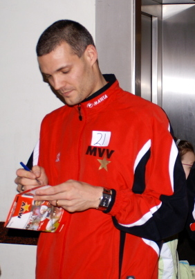 Football players of MVV during the open day, January 2008. From left to right: Gunter Thiebaut, Sjoerd Winkens, and Ole Tobiasen.